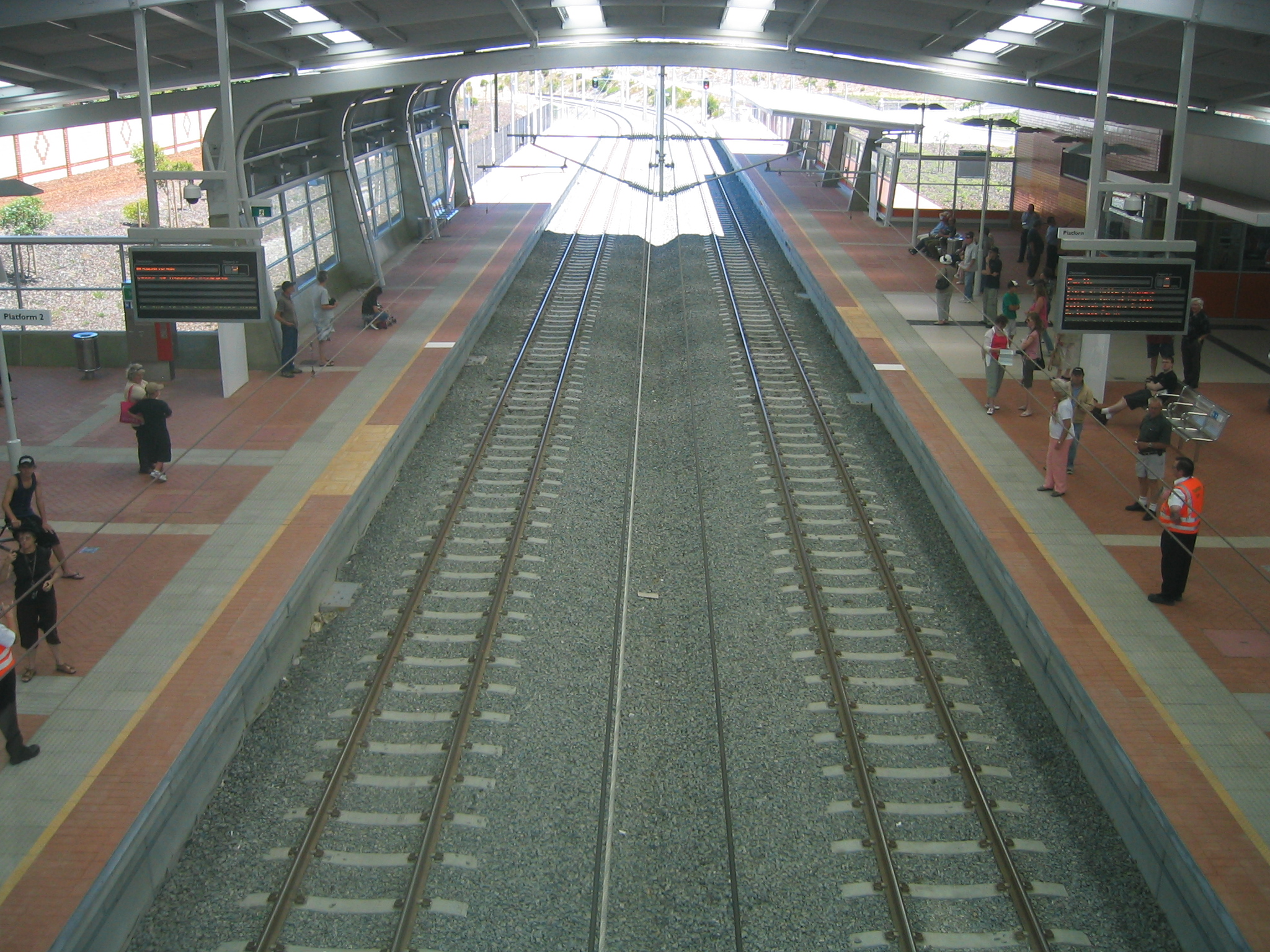 The platform level of Rockingham Station, taken from the footbridge level of its station.